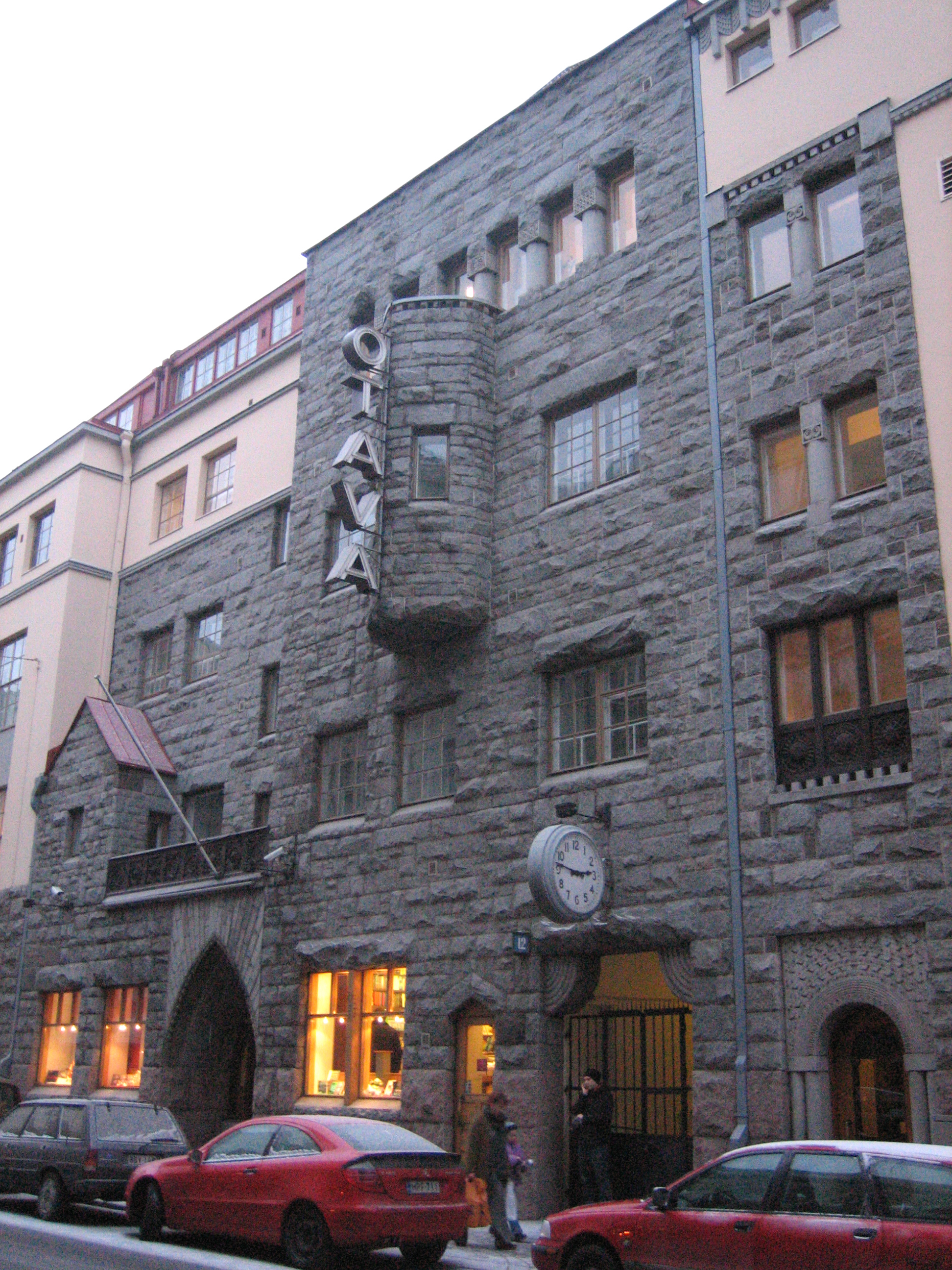 Facade of publishing house Otava, end of December 2005.